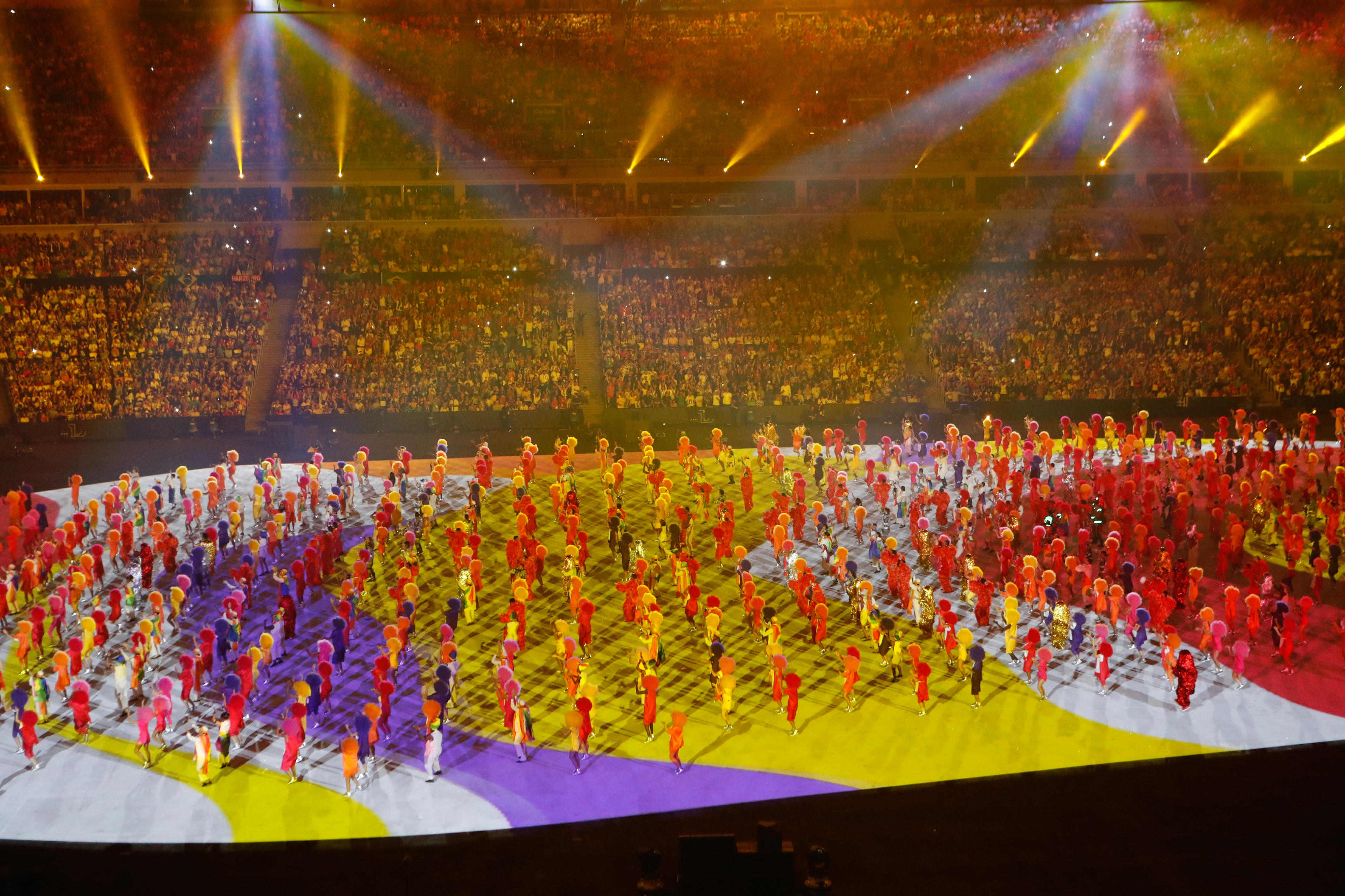 Rio de Janeiro - Cerimônia de abertura dos Jogos Olímpicos Rio 2016 no Estádio do Maracanã. (Fernando Frazão/Agência Brasil)